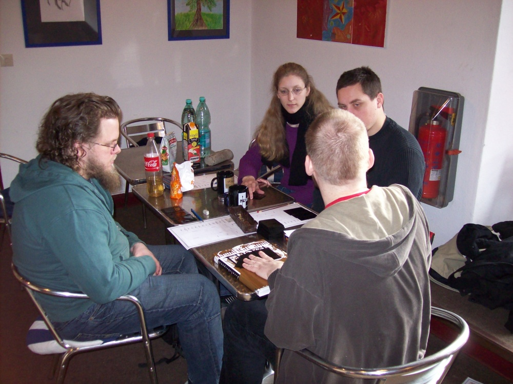 Role playing gamers at the Burg-Con in Berlin. System Engel, played wirth cards instead of dice.